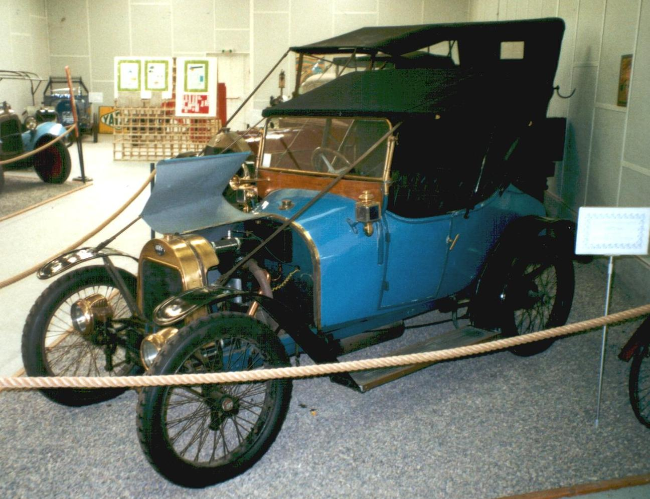 CID 1912 (Country of origin: France)